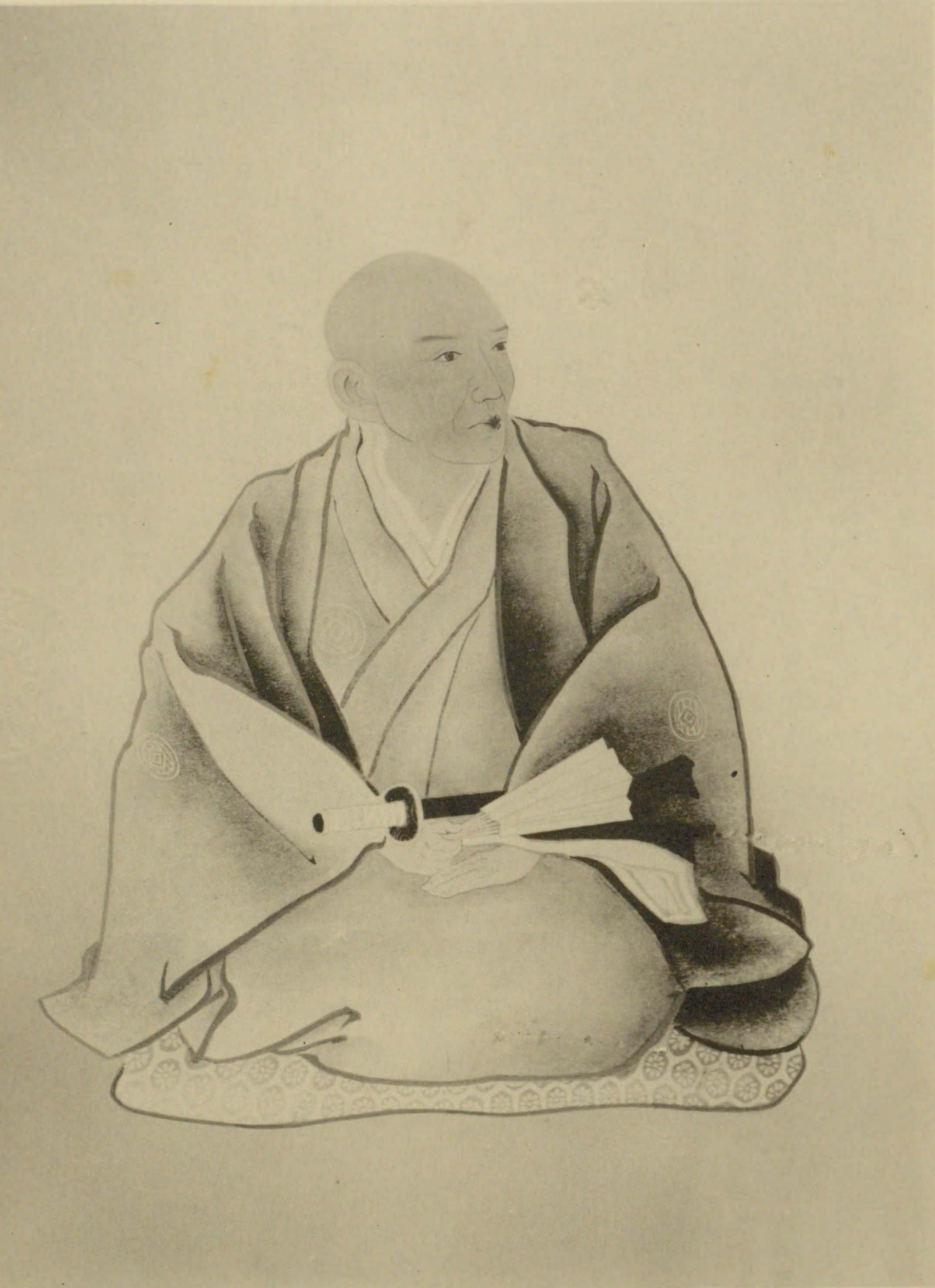 Portrait of Otsuki Shunsai